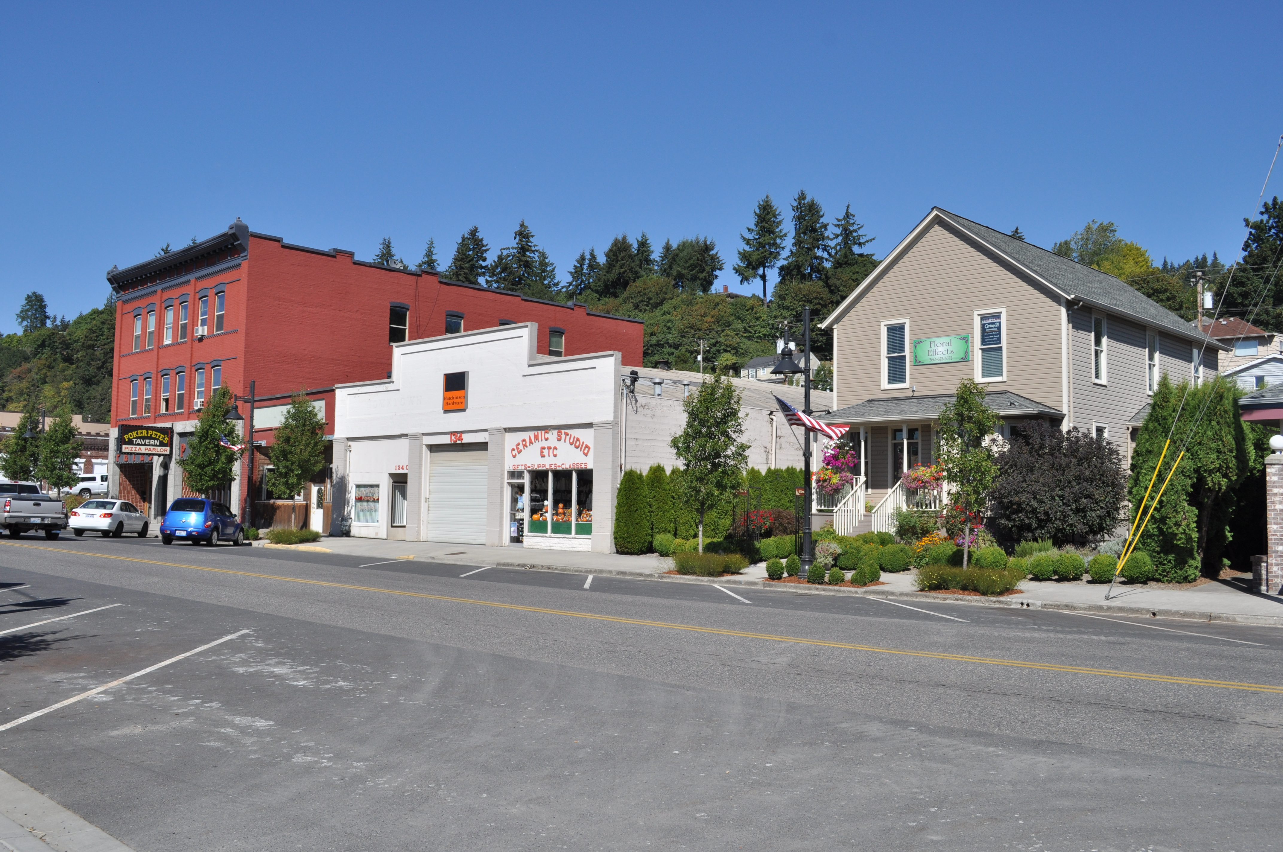 Buildings on the east side of the 100 block of N 1st Street, downtown Kalama, Washington.